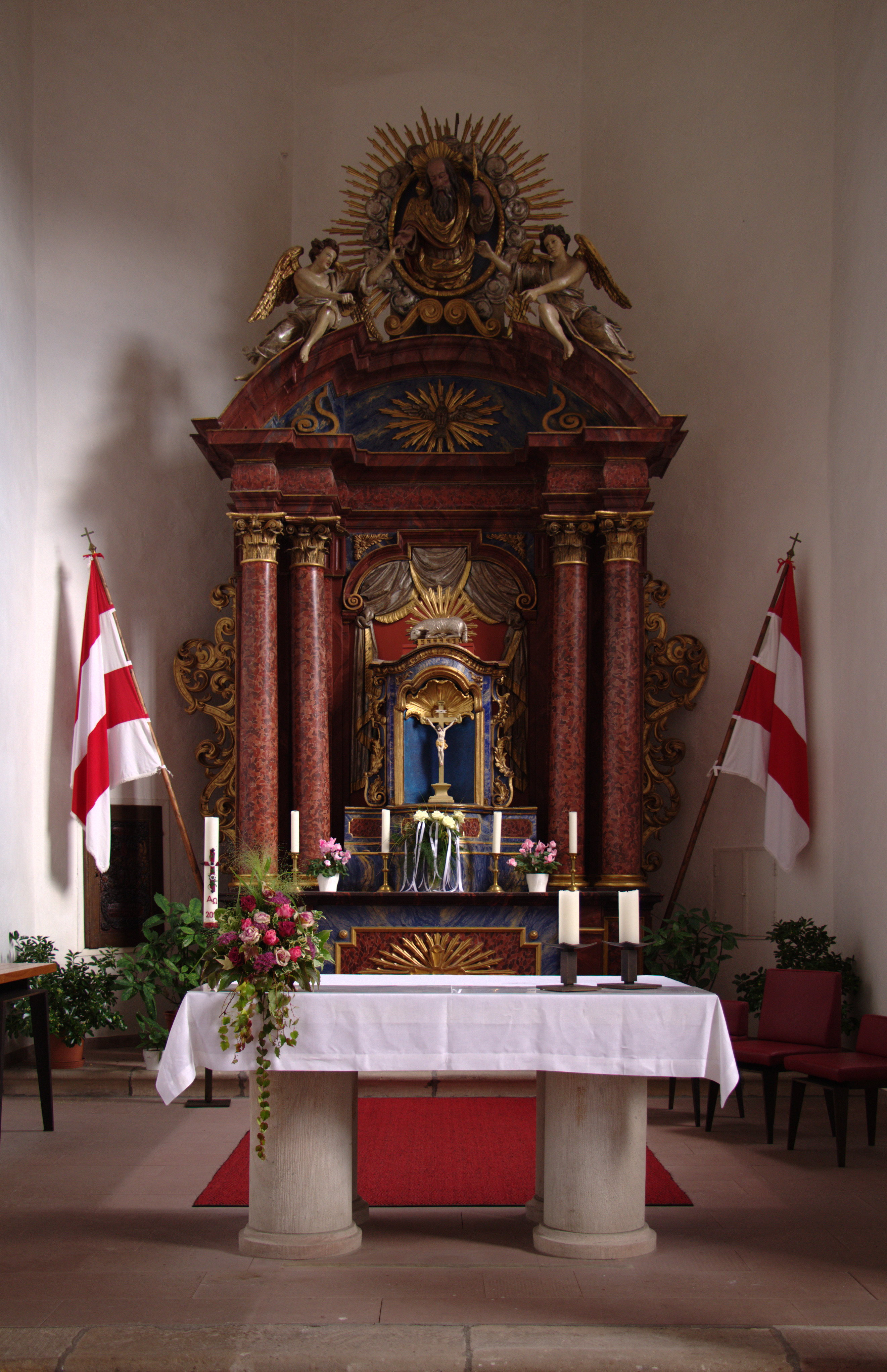 Pilgrimage chapel "Kleinheiligkreuz" (Altar) in Kleinlueder, Grossenlueder, Hesse, Germany